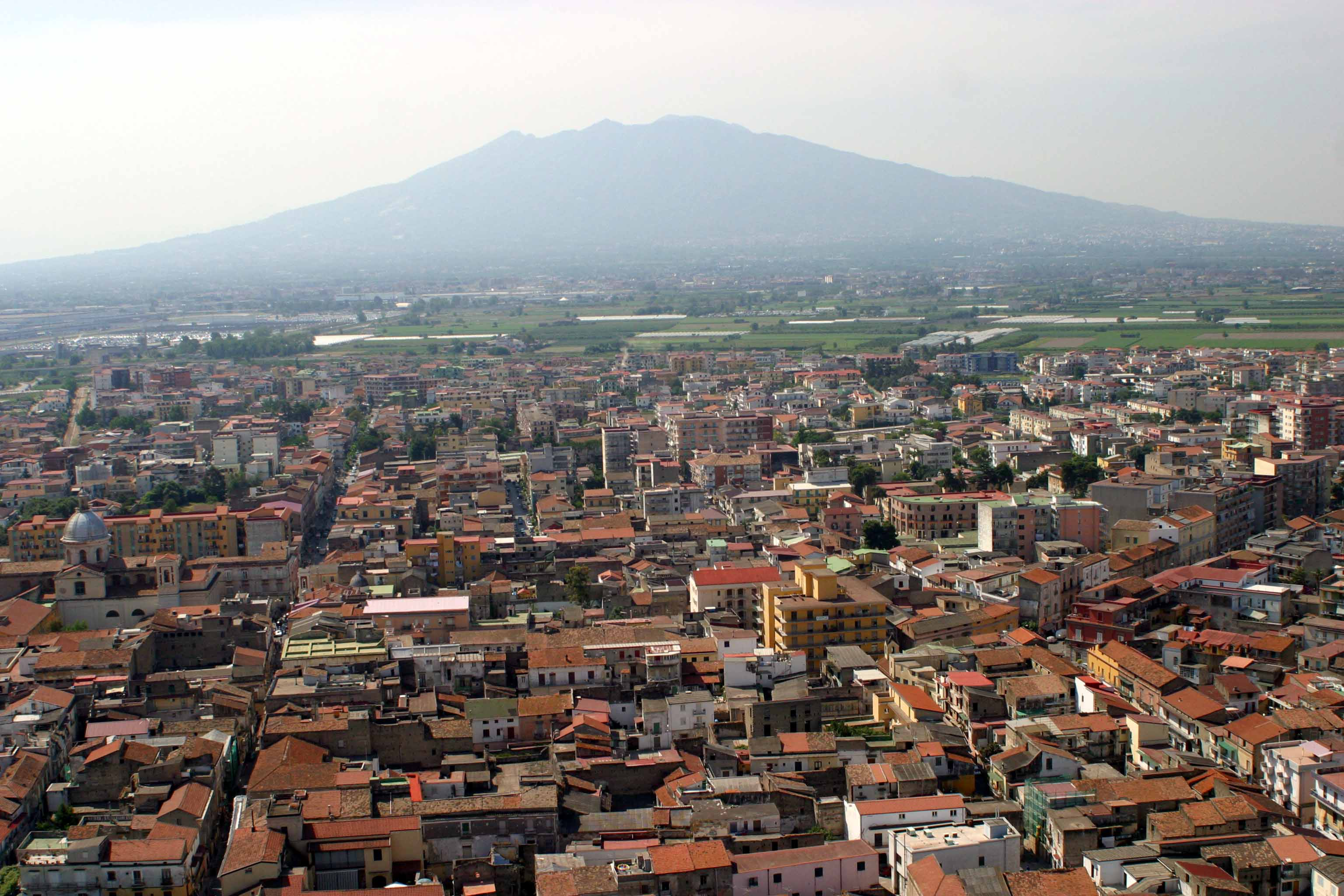 Panoramic view of Acerra, Napoli, Italy